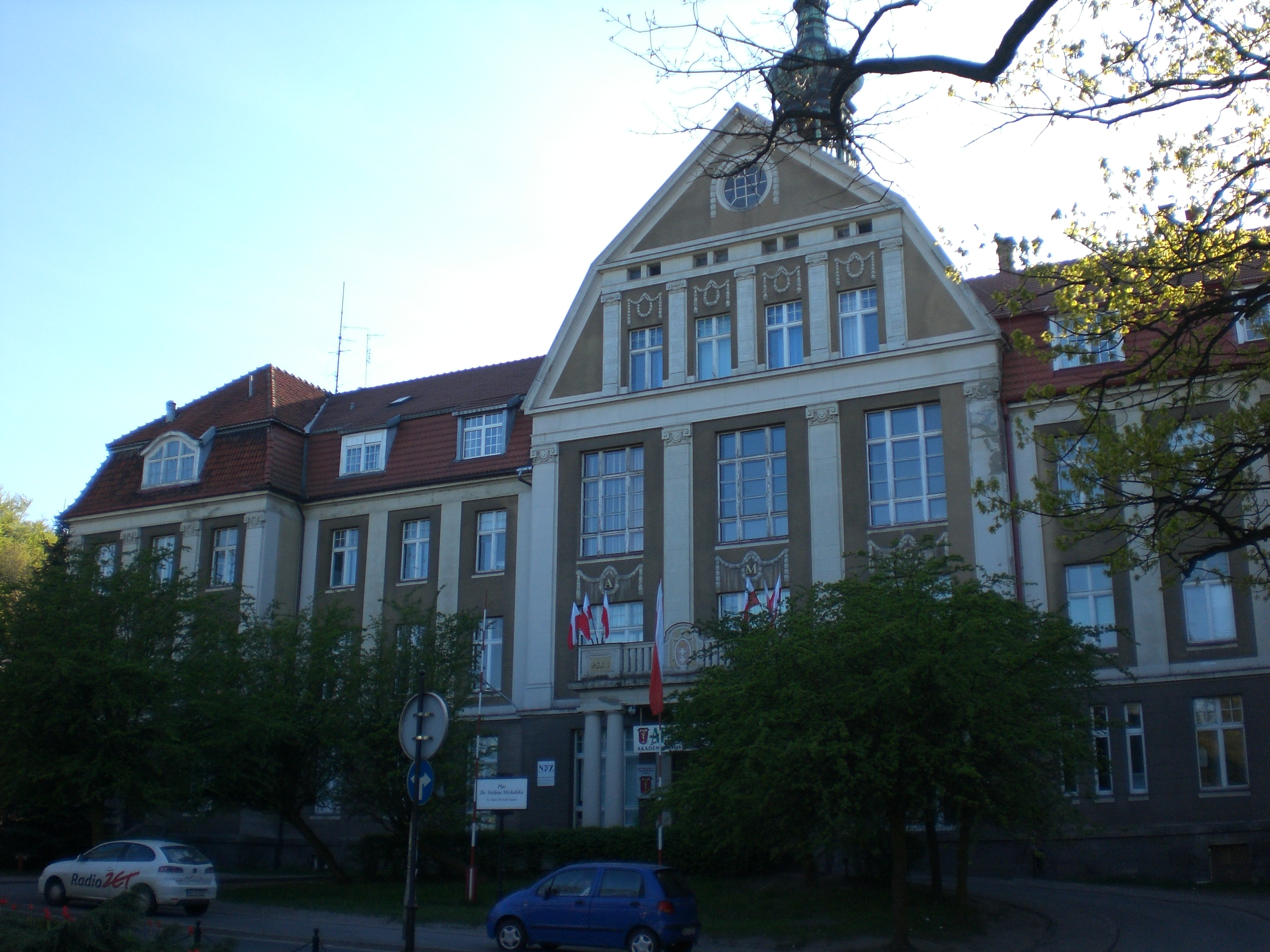 Gdańsk Medical University